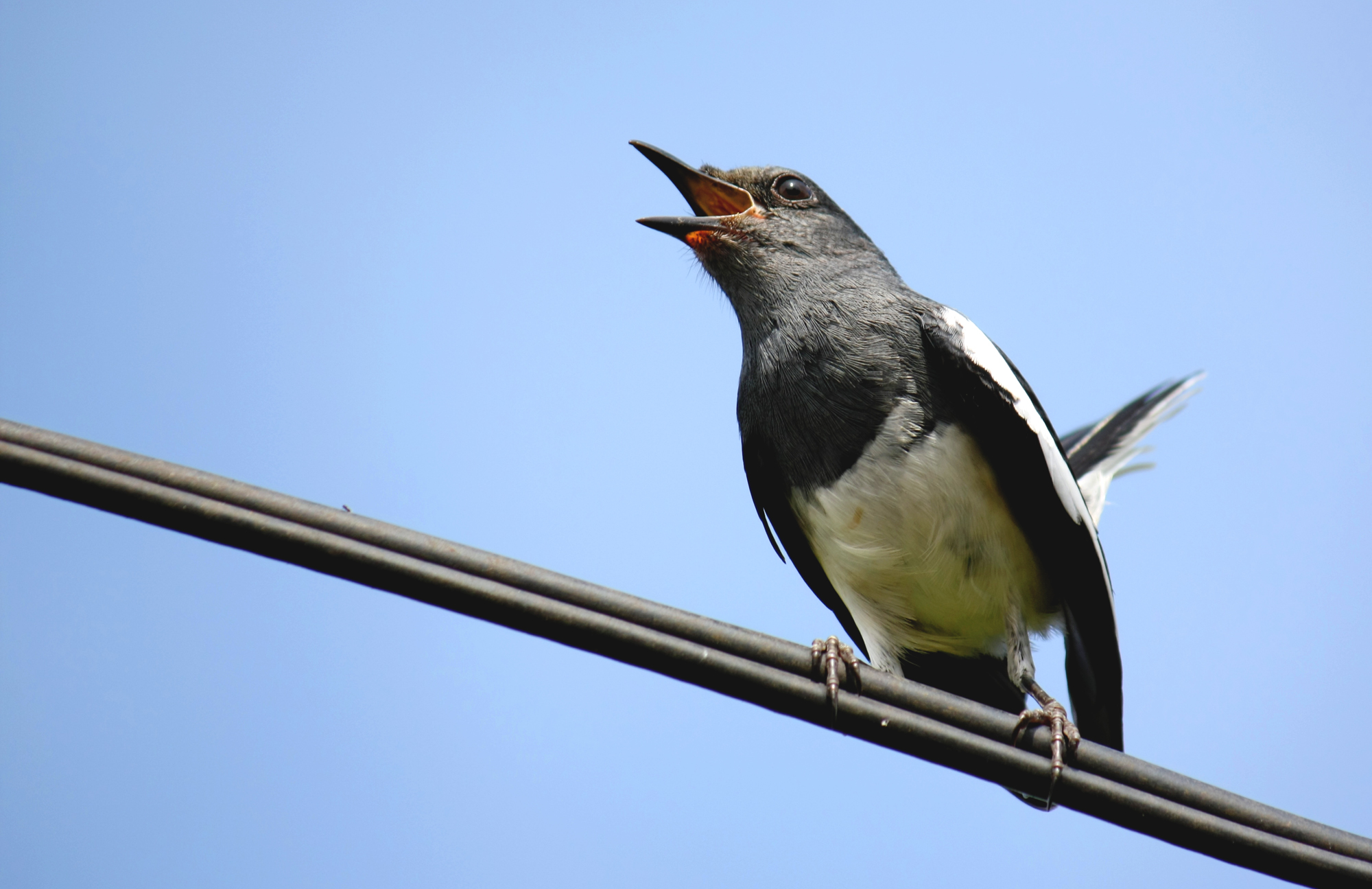 Oriental Magpie Robin (Copsychus saularis). Photographed in Batticaloa, Sri Lanka